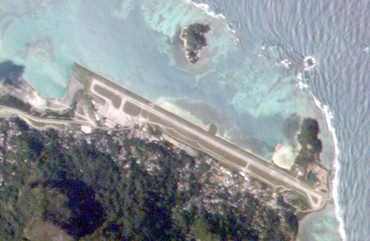 Image courtesy of Earth Sciences and Image Analysis Laboratory, NASA Johnson Space Center. [1].